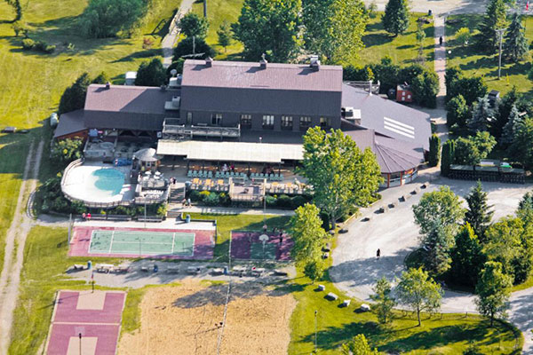 Main lodge at Wilderness Tours